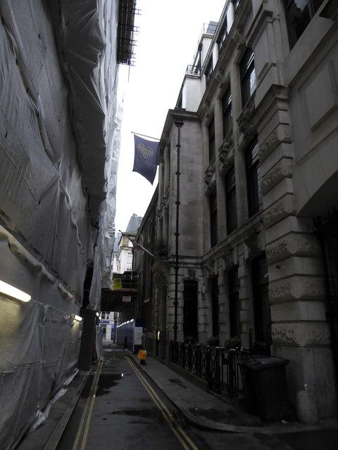 The Square Mile in one day (winter 104)